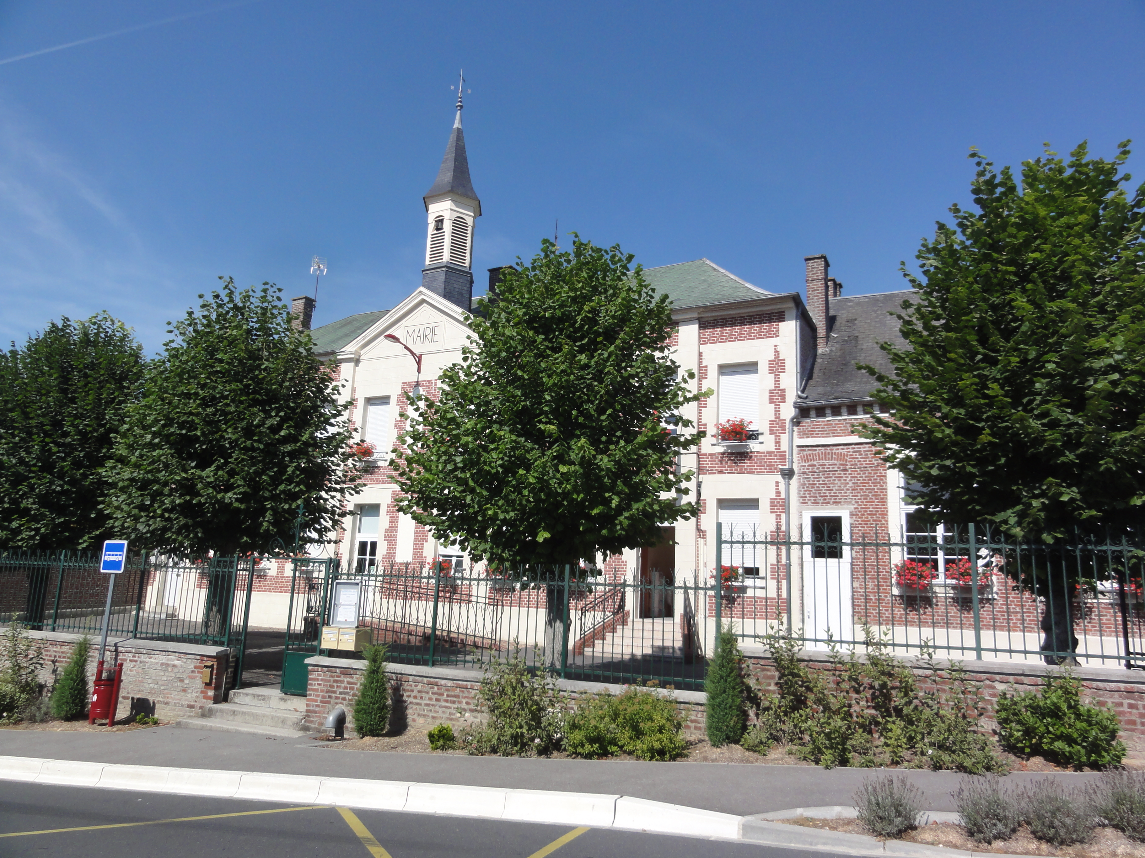 Thenelles (Aisne) mairie